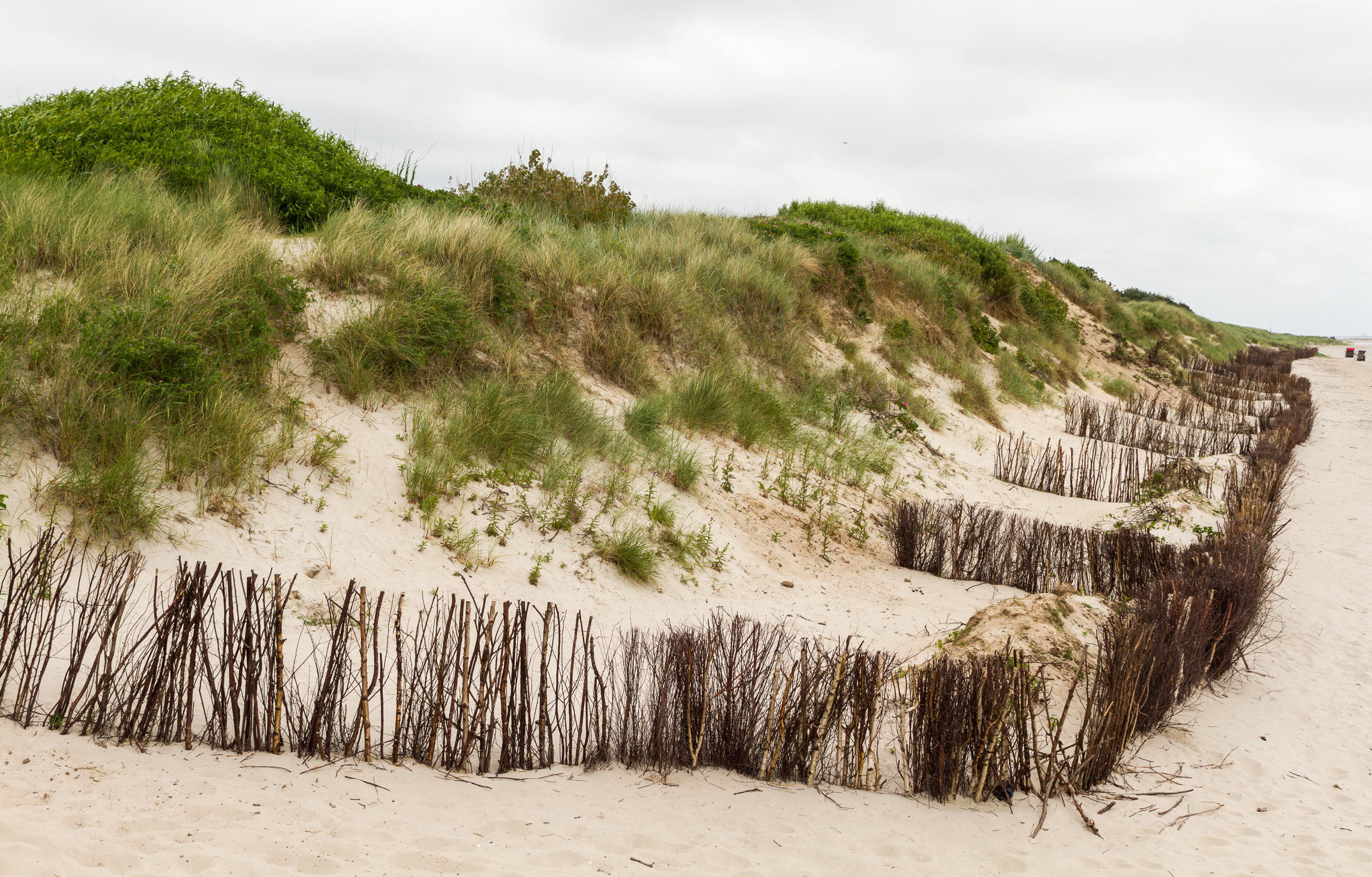 Designation: Goting cliff/Föhr Geotype: Cliff Number: Kl 040 (geotope) Description: The Goting cliff with a height up to 9 m is the highest steep bank of Föhr. It was formed during the Saale ice age. By the effect of wind and water, once visible geological layers are unrecognisable. Place: Municipality Nieblum, Collective municipality Föhr-Amrum, District Nordfriesland, Schleswig-Holstein, Germany Location: Goting